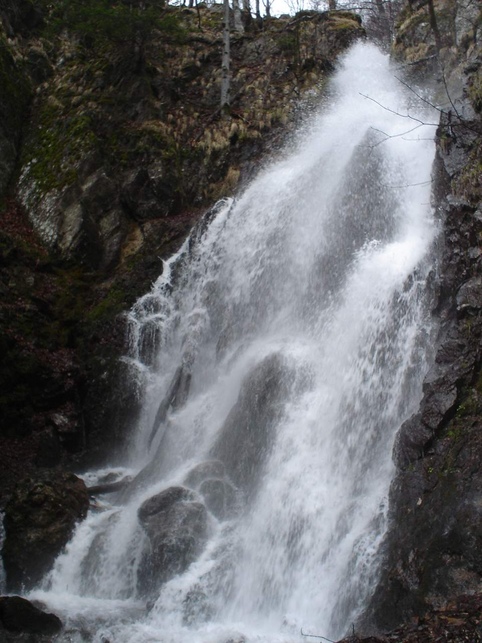 Middle part of great waterfall on Kopaonik,Serbia,SCG.